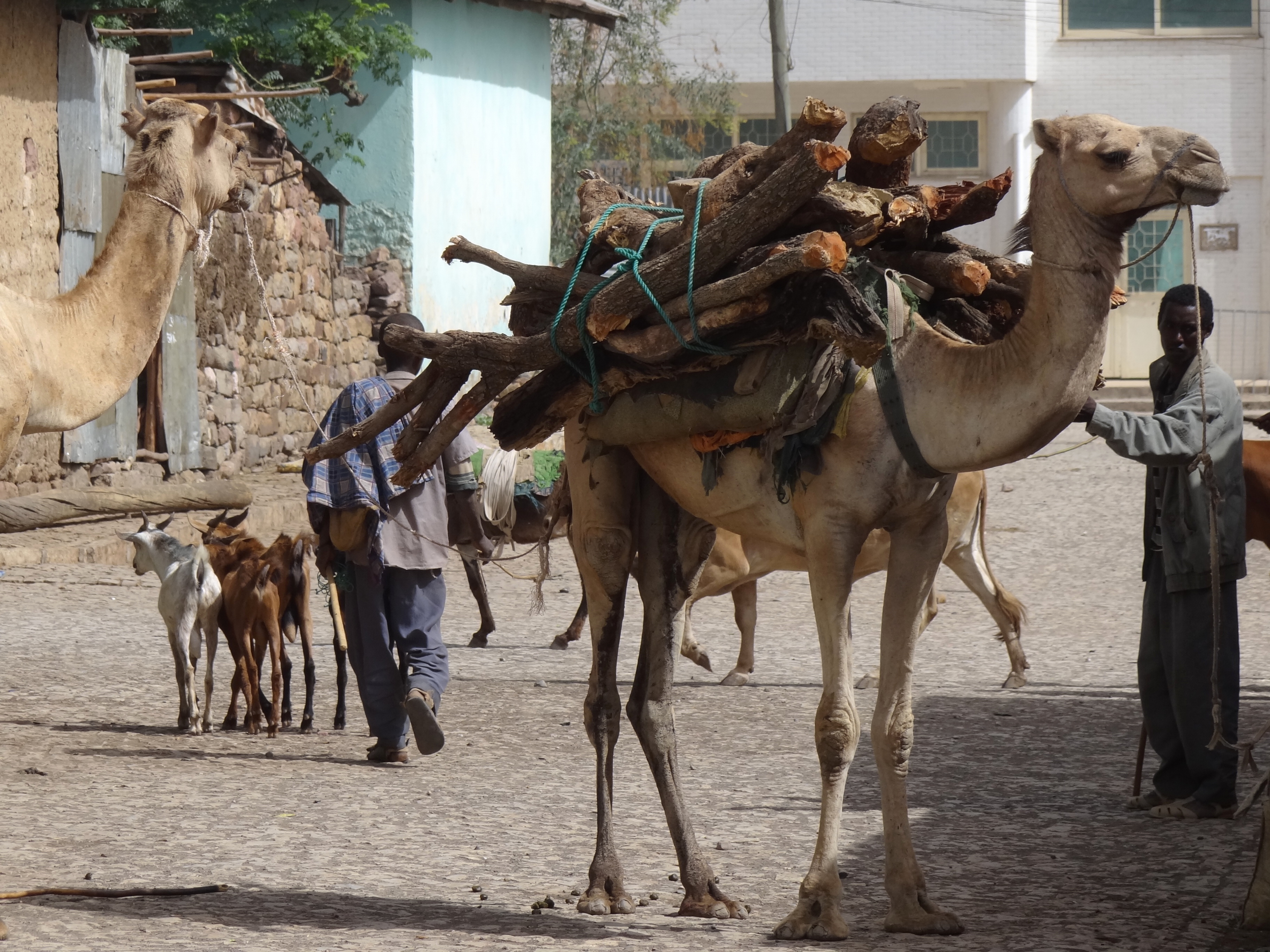 Street Scene with Camels - Shire - Ethiopia